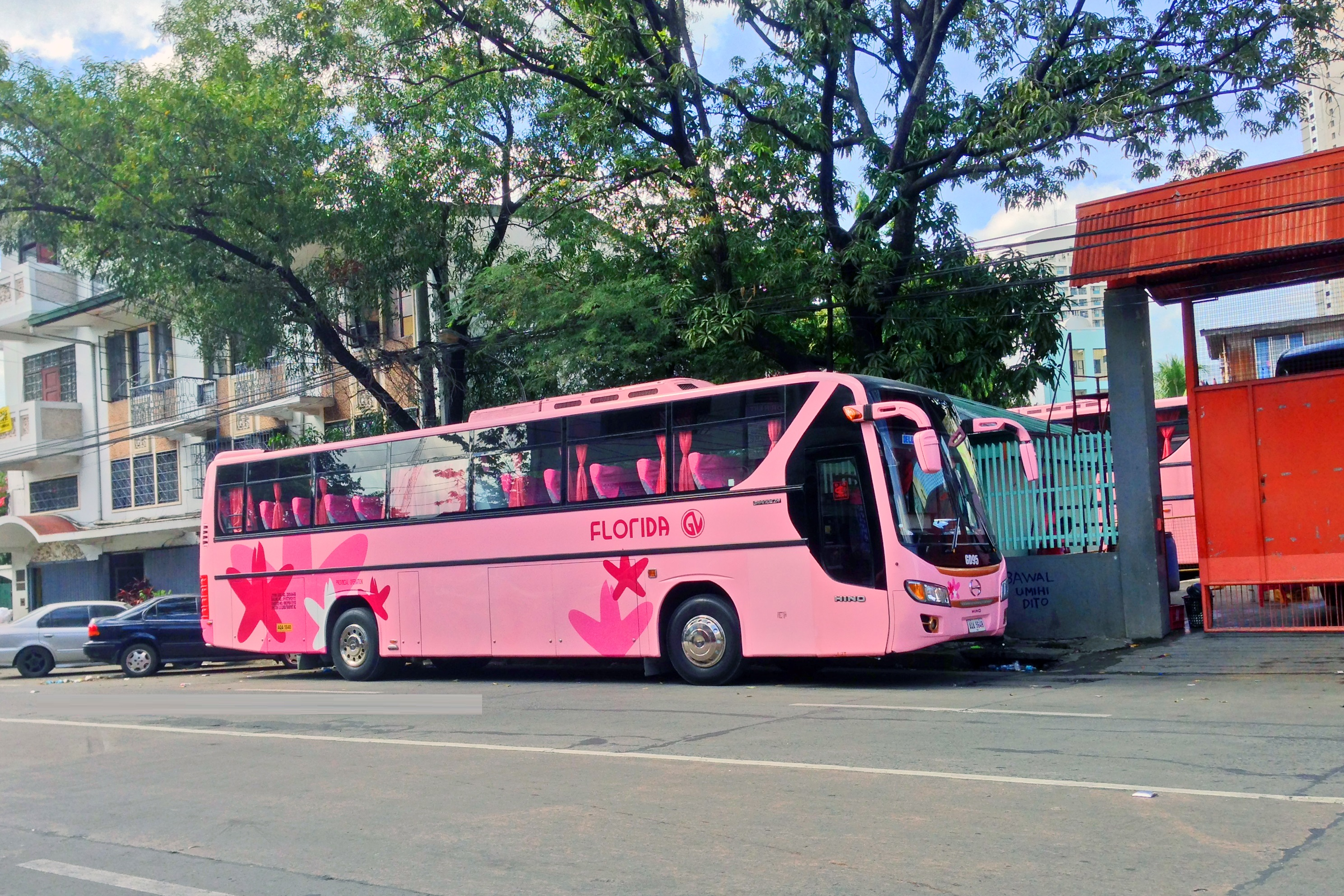 GV Florida bus, parked on their motorpool in Sampaloc, Manila. In this unit, it is mounted on Hino RM2P chassis.